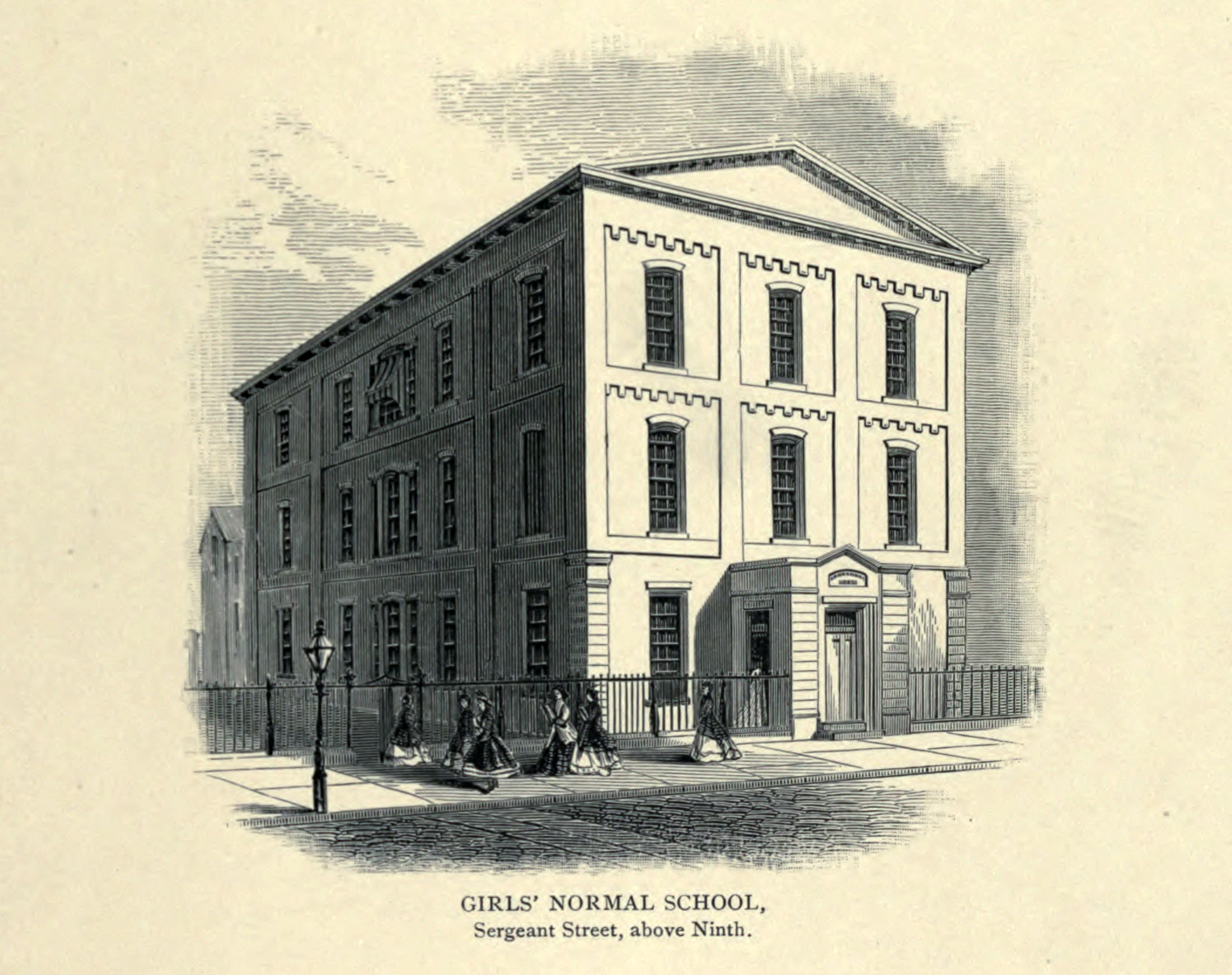 Girls' Normal School, Sergeant Street above Ninth Philadelphia PA (1853) From The Public Schools of Philadelphia: Historical, Biographical, Statistical by John Trevor Custis, Burk & McFetridge Co. Publisher, 1897 (